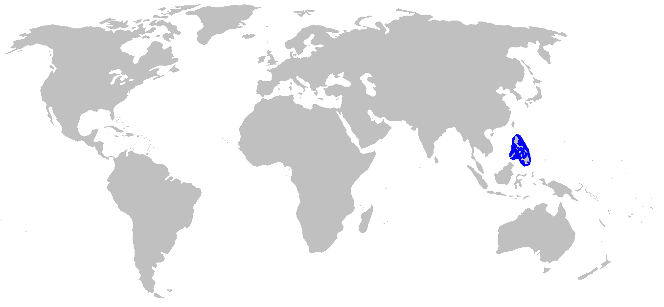 Distribution map for Scyliorhinus garmani